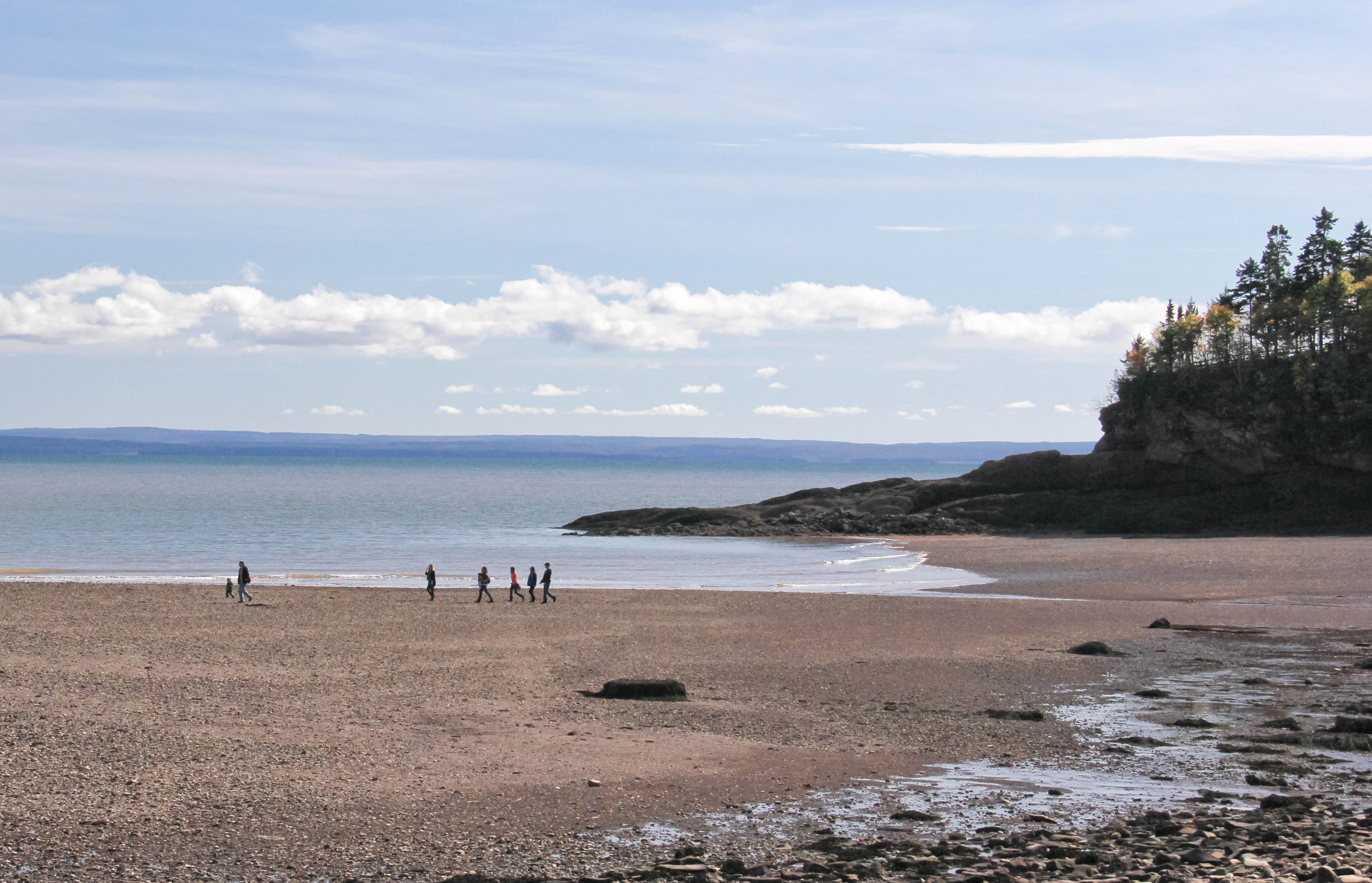 Fundy National Park, New Brunswick, Canada